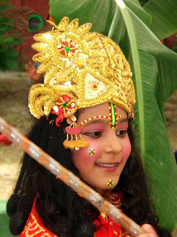 Child dressed up for Janmashtami/Gokulashtami, Krishna's birthday.